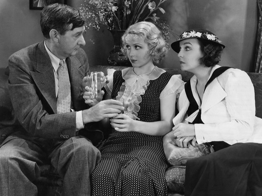 Photo of Slim Summerville, Adrienne Dore and ZaSu Pitts from the 1933 film Love, Honor, and Oh Baby!.